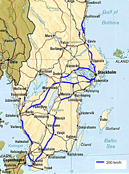 Map of Swedish railway lines having 200 km/h as maximum speed also being used.